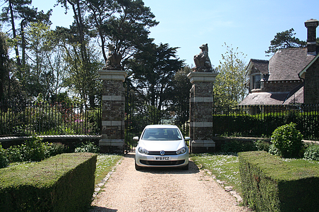 "Bull and Bear" entrance gates and lodge to the estate of Membland (demolished). Membland, in about 1877, and the manor of Revelstoke were purchased by Edward Baring (1828–1897), who in 1885 was elevated to the peerage as "Baron Revelstoke of Membland". He was senior partner of Barings Bank, which had originated in nearby Exeter, Devon. In 1861 he had married Louisa Emily Charlotte Bulteel (died 1892), a daughter of John Crocker Bulteel (1793–1843) of Fleet, Holbeton, the adjoining estate, MP for South Devon 1832–4 and Sheriff of Devon in 1841. In 1889 he built the surviving Bull and Bear gatelodge at Membland, with datestone and his monogram. This was a humourous dual reference both to the couple's surnames and to the stockmarket beasts the bull and bear, varieties of speculators, appropriate to two families of bankers. The canting coat of arms of Baring also depicts a bear's head.